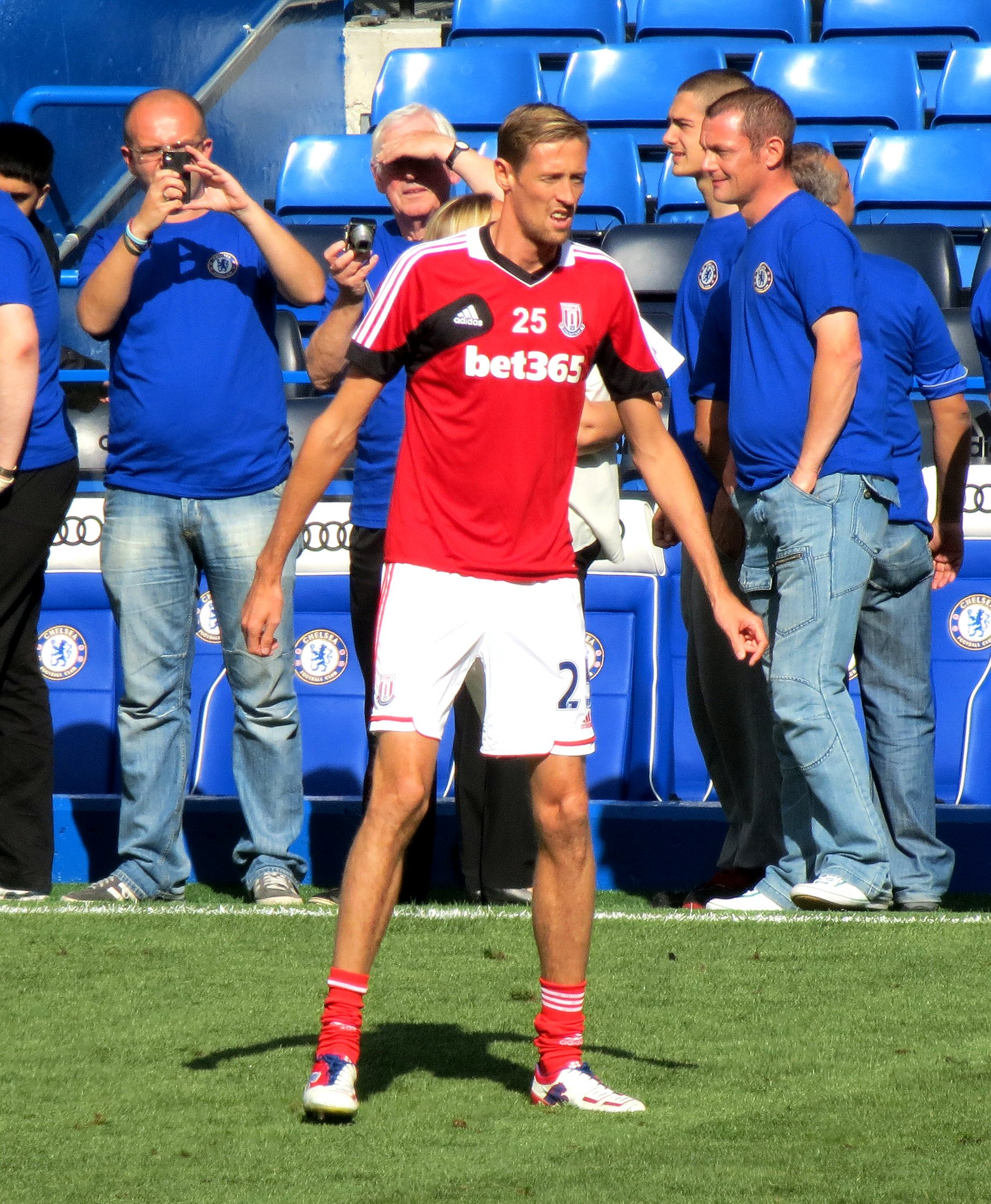 Peter Crouch playing for Stoke City at Stamford Bridge, September 2012